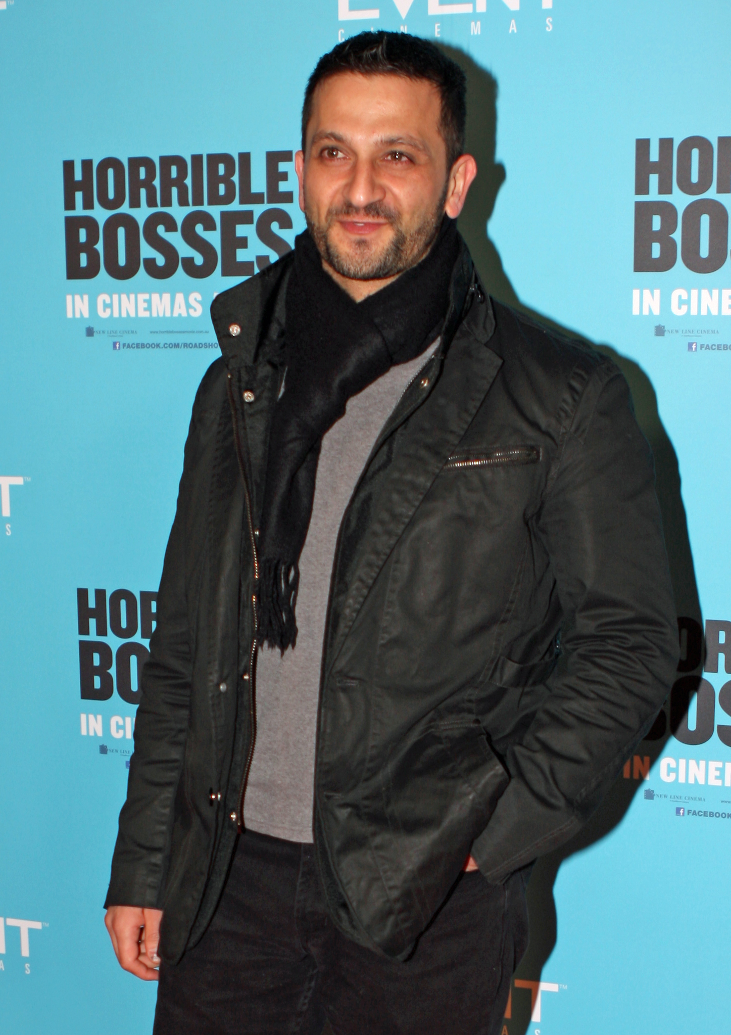 Salvatore Coco at the film premiere of Horrible Bosses.